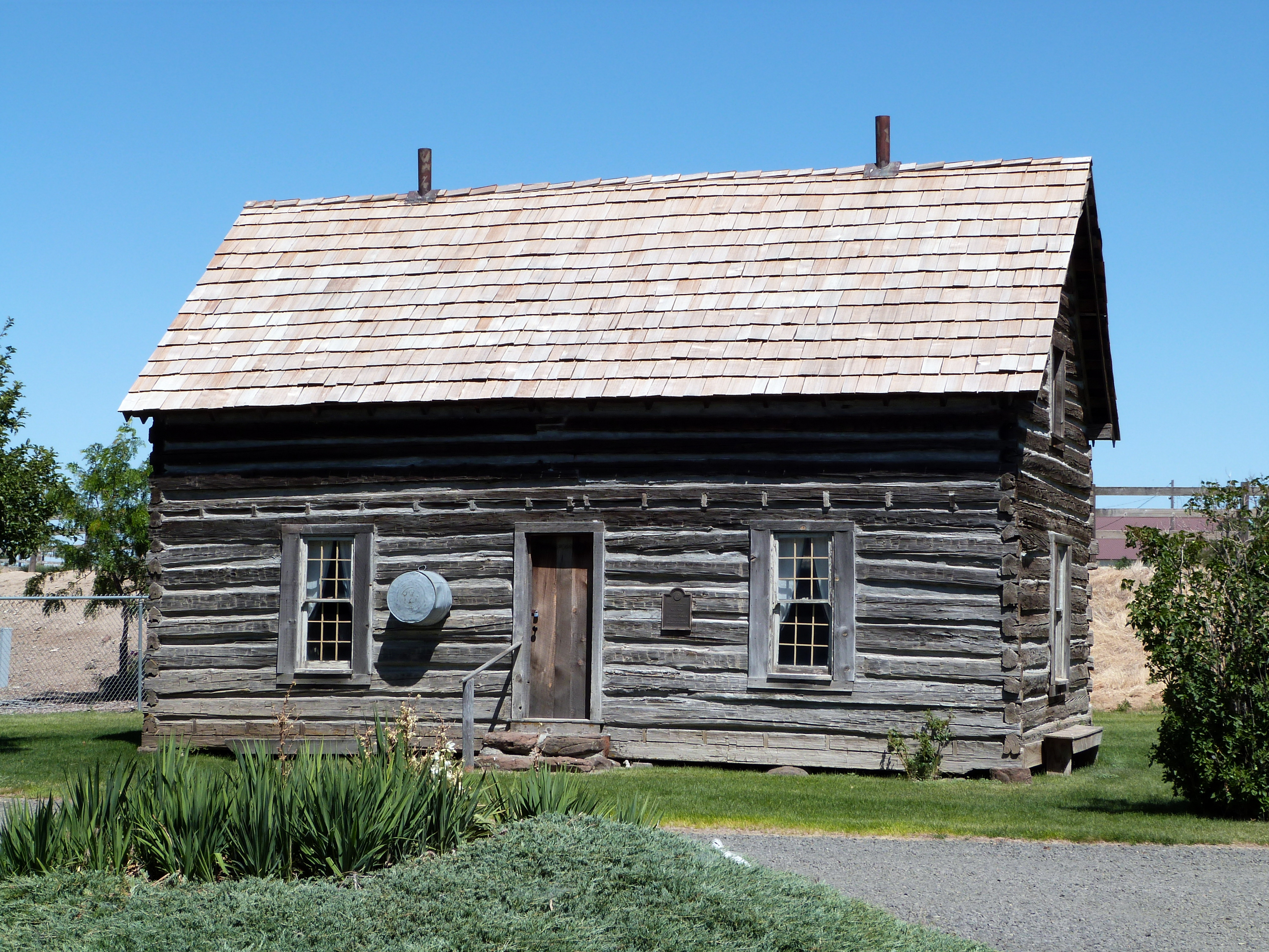 The historic Silas A. Rice Log House, located in Burns Park in Condon, Oregon, United States, is a component of the Gilliam County Historical Society museum. The house is listed on the US National Register of Historic Places.